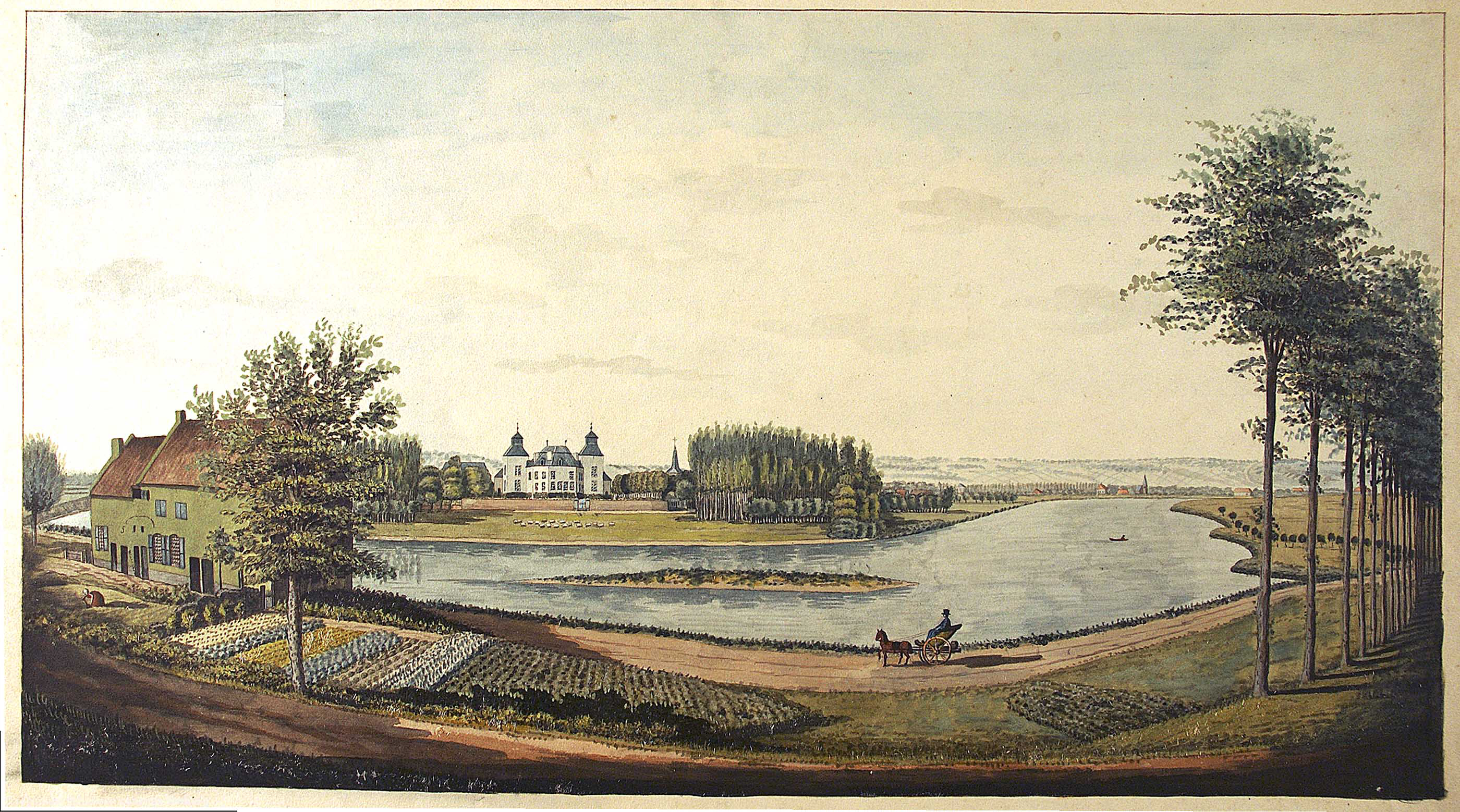 View of the river Meuse and the castle of Borgharen near Maastricht, Netherlands. Drawing by Philippe van Gulpen from 1836. Collection RHCL, Maastricht, ref. nr. CVDN 495.